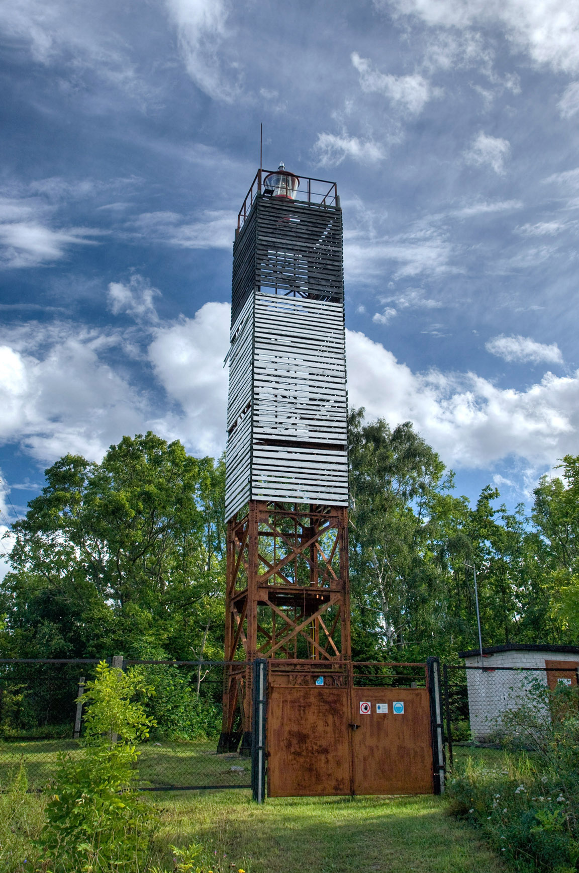 Seanina light beacon